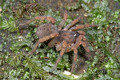 Female Ryuthela tanikawai from Okinawa.